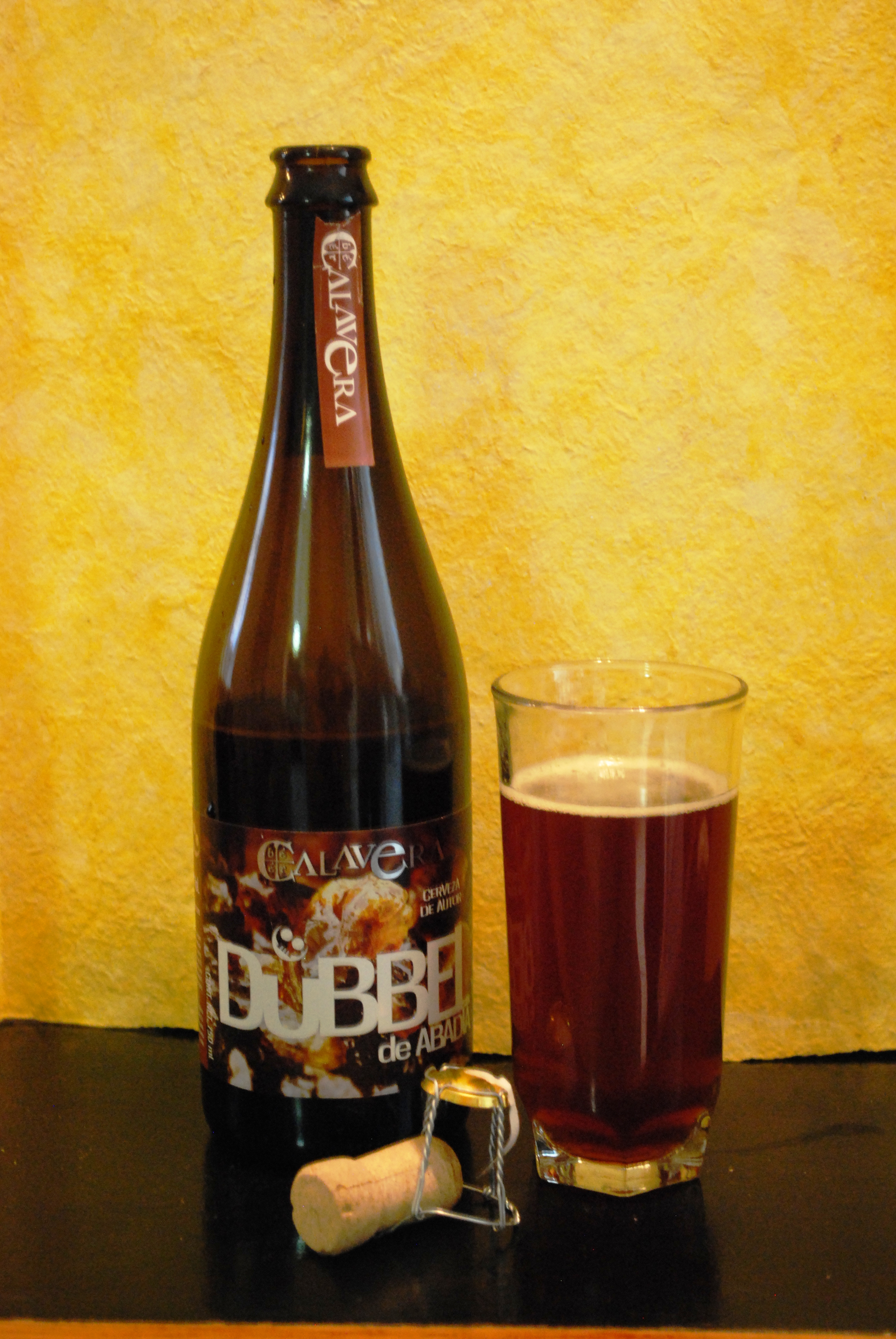 Calavera Beer Dubbel (dunkel) with glass and cork from the bottle